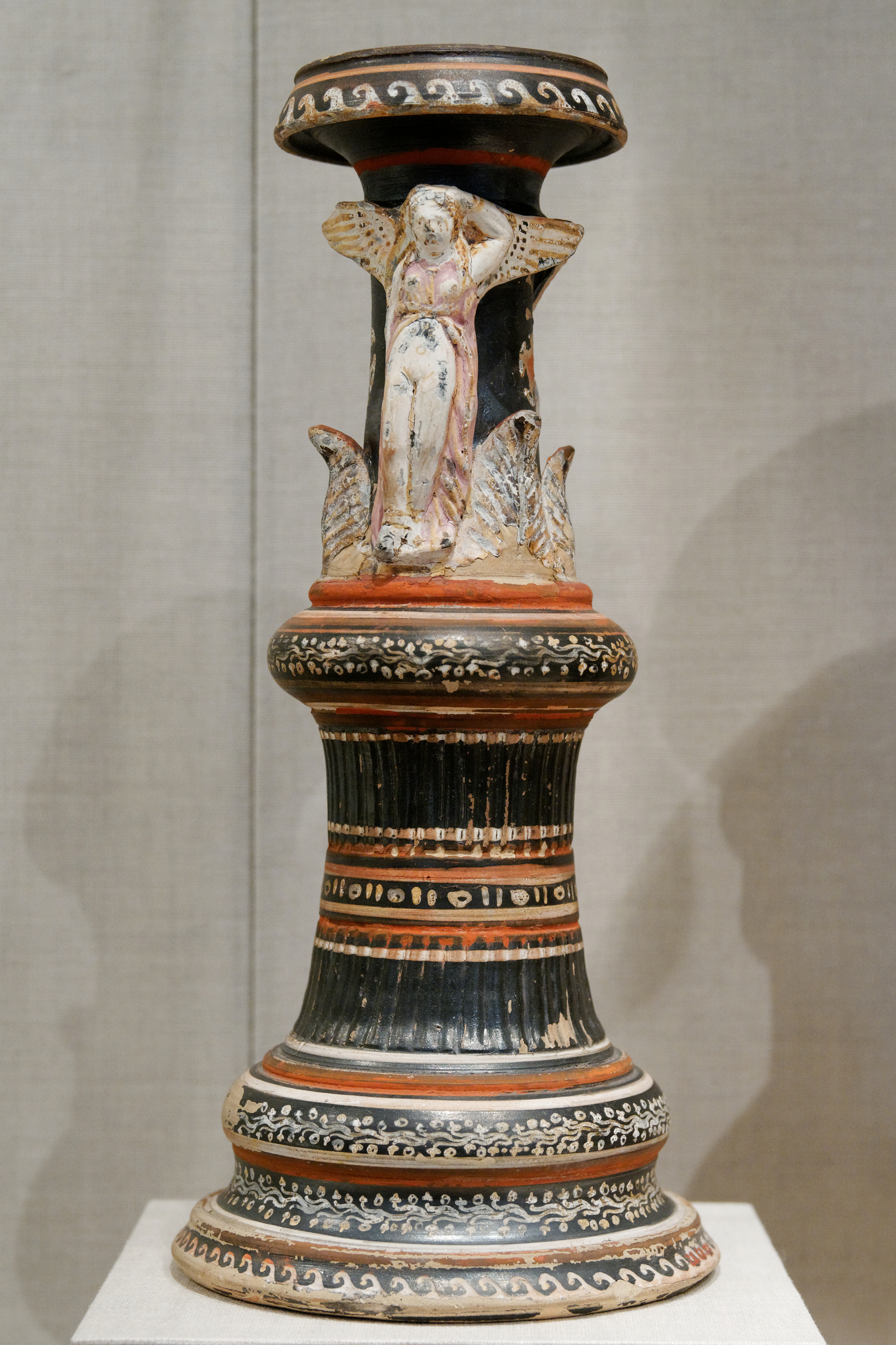 Nikai (personnifications of Victory). Apulian thymiaterion in Gnathian style.